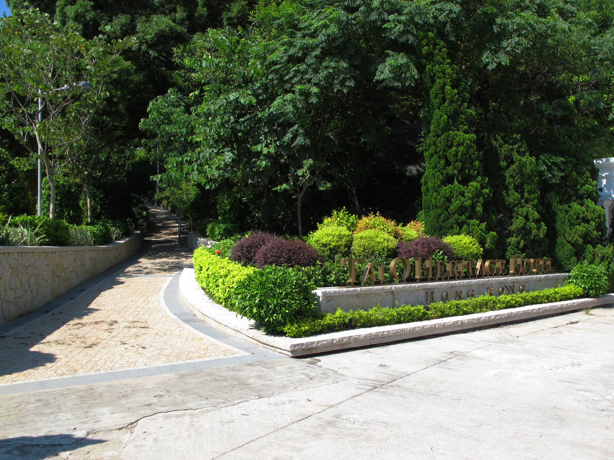 Tai O Heritage Hotel Entrance